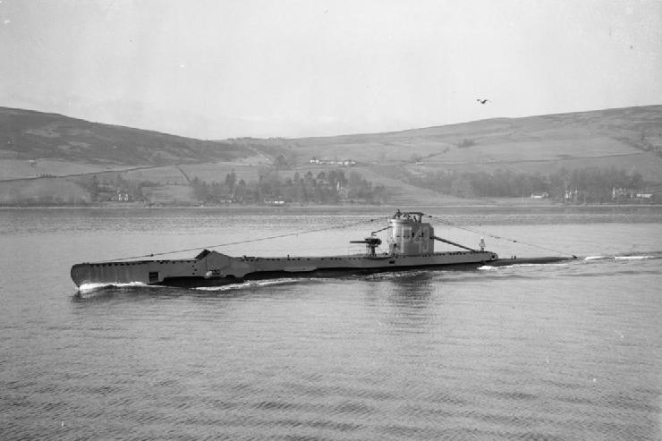 HMSM UNISON in the Clyde during her working up trials.